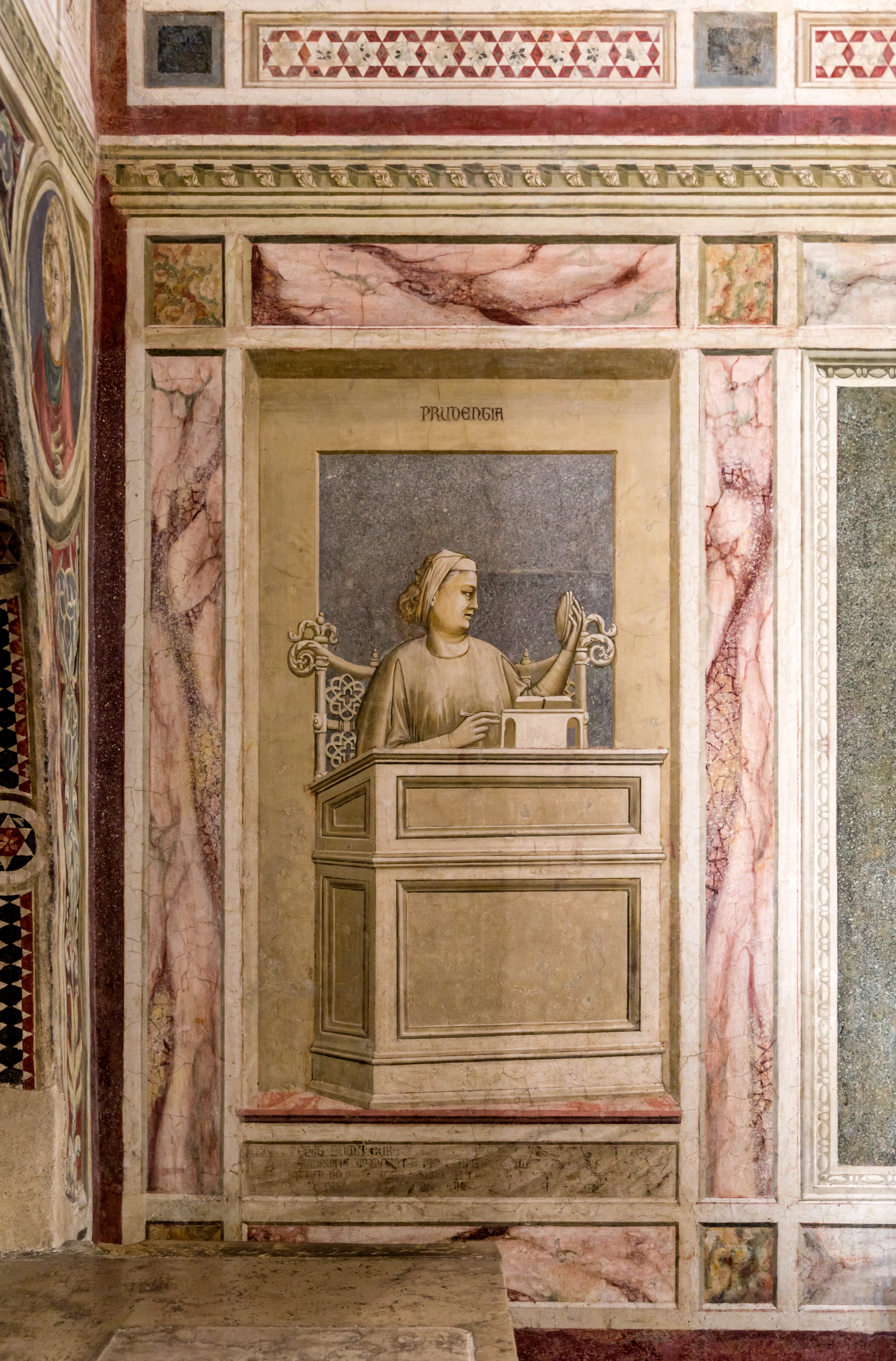 A stroll through Padua